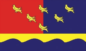 The winning entry in a competition held in June 2008 under the auspices of the BBC for a flag to commemorate "Sussex Day".